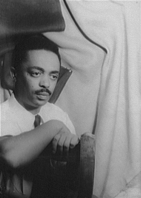 Peter Abrahams photo taken by Carl Van Vechten, photographer.